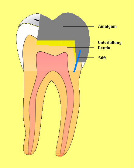 Amalgam filling with parapulpal pin Dentistry logo: a cross-sectional diagram of a tooth on a white background, fading out towards the bottom of the image.